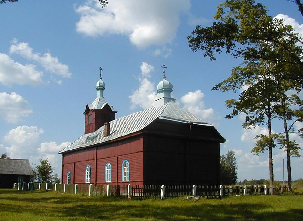 Old believers church in Tiskādi, Rēzekne municipality, Latvia